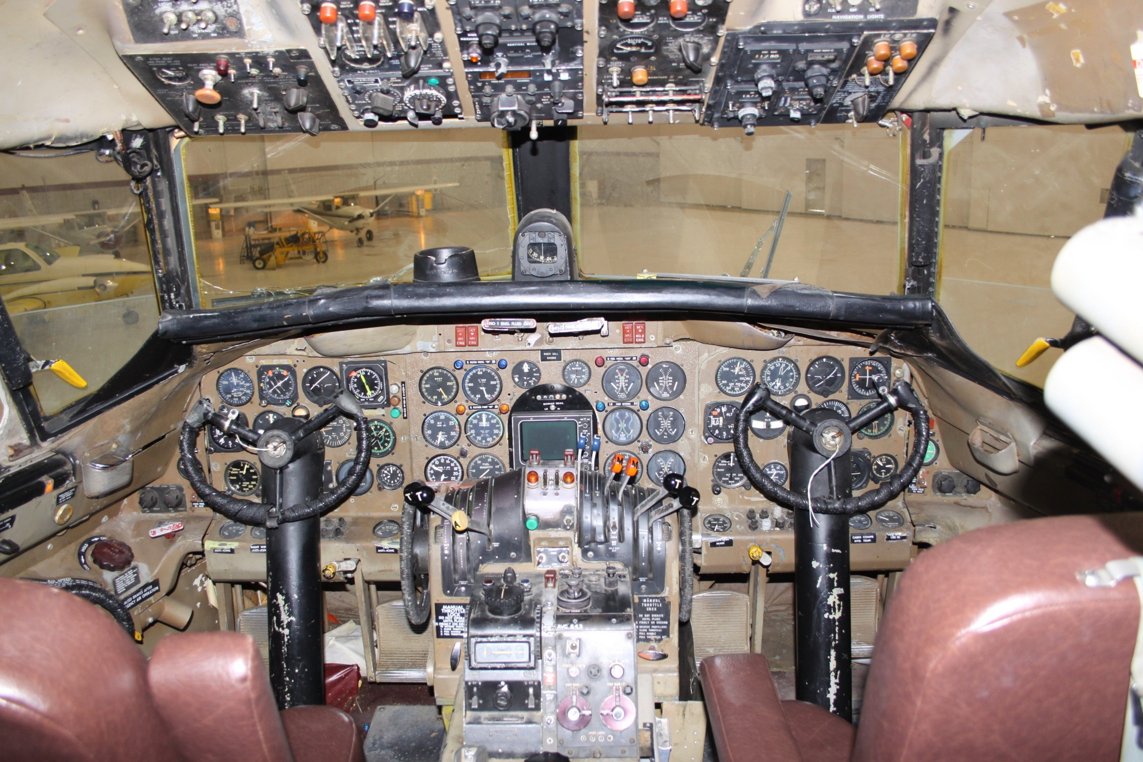 At Tulsa Richard Lloyd Jones Jr. Airport